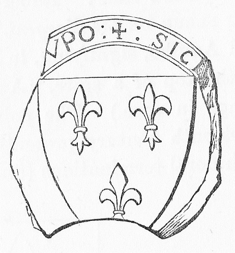 Early seal of William I de Cantilupe (d.1239), 1st feudal baron of Eaton Bray in Bedfordshire, as published in Planche, J.R. The Pursuivant of Arms; or Heraldry Founded Upon Facts, London, 1873, p.134. Blazon: Gules, three fleurs-de-lys or. His arms in later generations changed to Gules, three leopard's faces jessant-de-lys or. Original full legend probably: SIG(ILLUM WILLELMI DE CANTIL)UPO ("Seal of William de Cantilupe"). See traced/standardised image of this shield